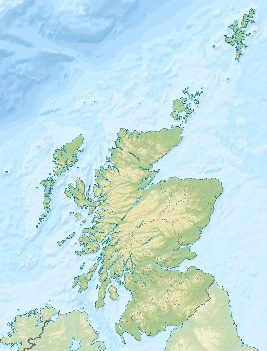 Location map of Scotland, United Kingdom Equirectangular projection, N/S stretching 170 %. Geographic limits of the map: * N: 61.0° N * S: 54.5° N * W: 8.8° W * E: 0.4° W